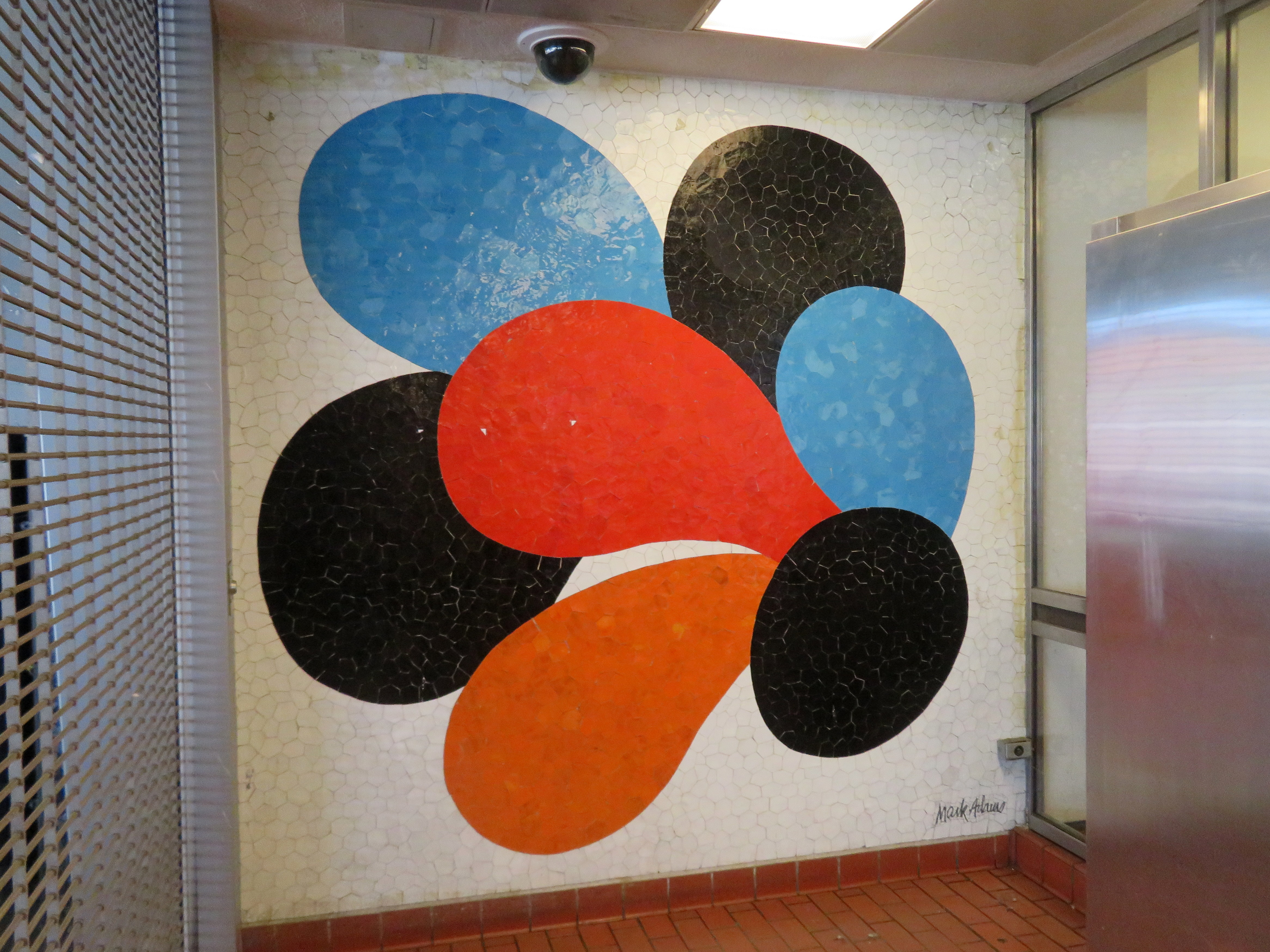 A tile mosaic by Mark Adams, constructed by Alfonso Pardiñas, at MacArthur station in September 2019